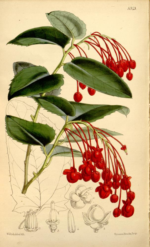 Illustration of Berberidopsis corallina